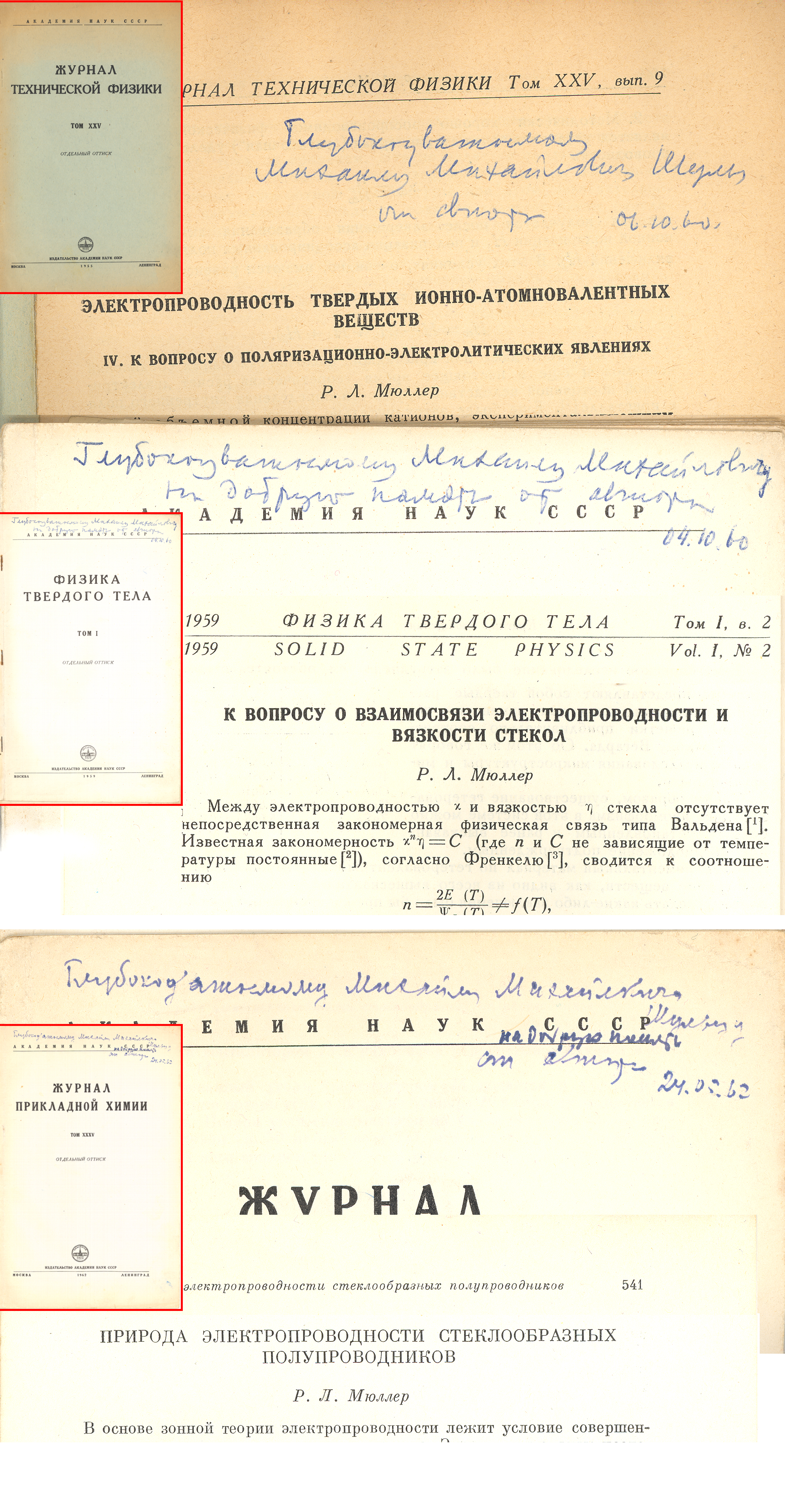 Compsition: From prints of Articles by prof. R. Muller in different time presented doc. M. Schultz